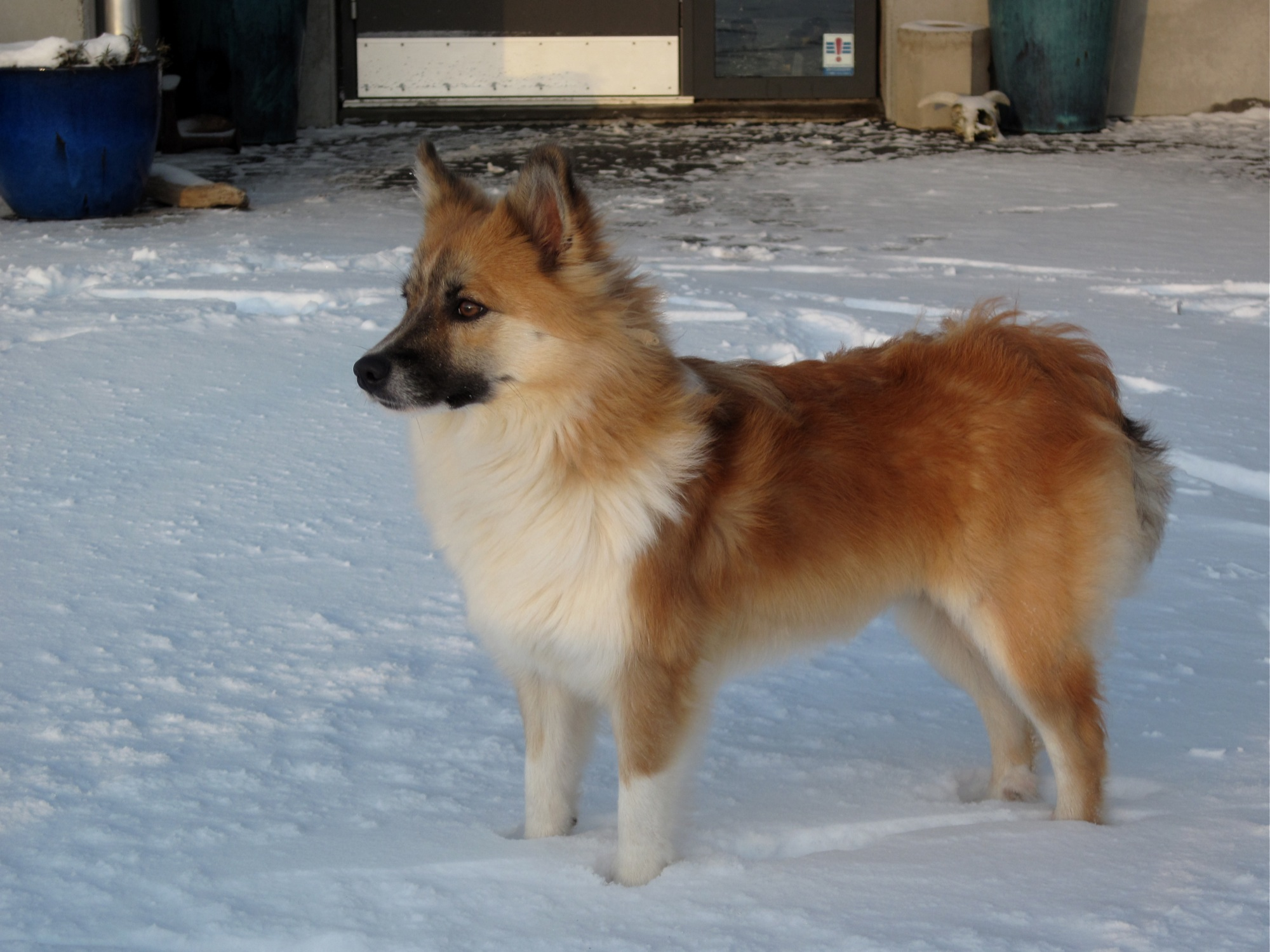 Iceland Sheepdog